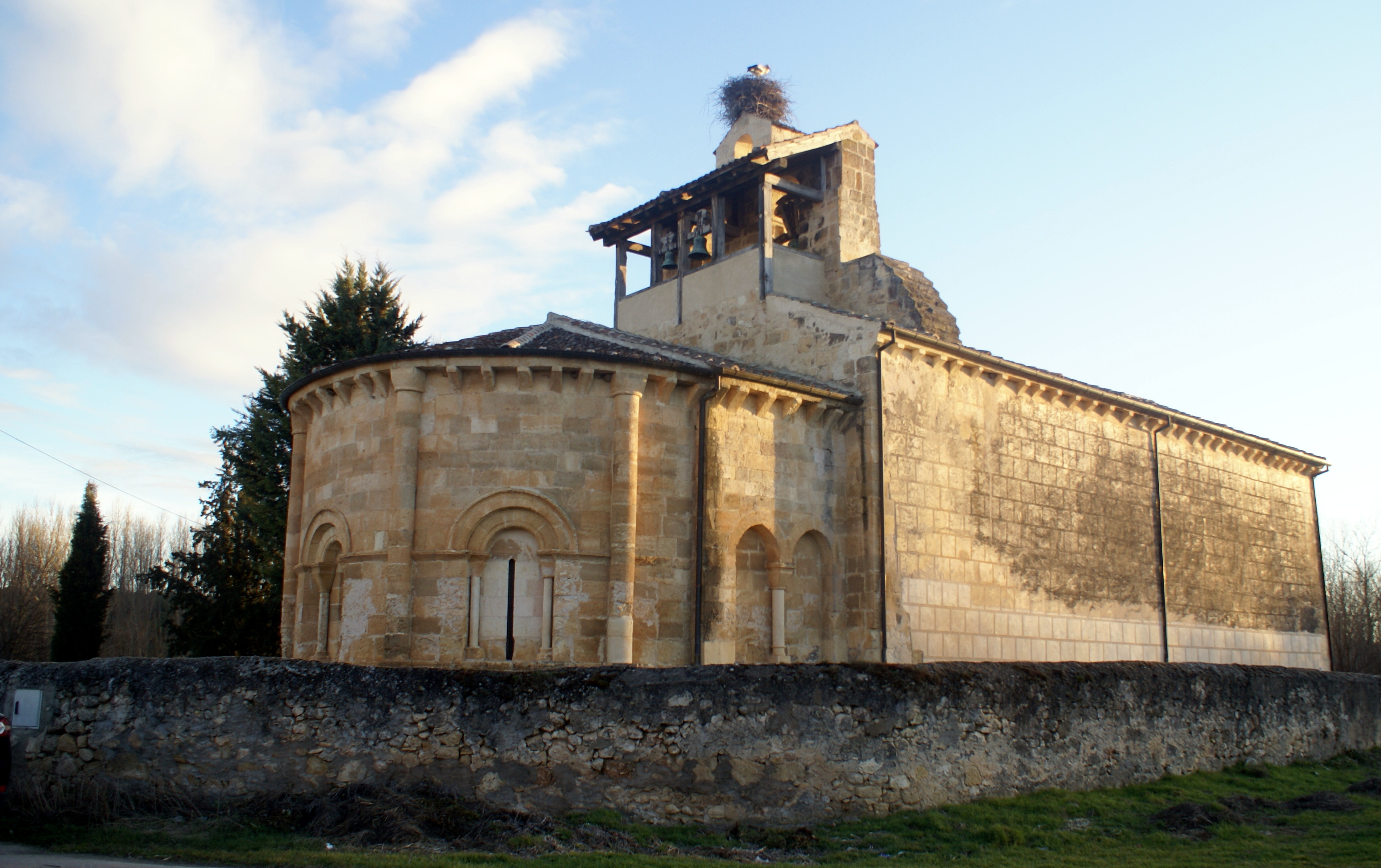 Church of Cobos de Fuentidueña, Segovia, Spain.